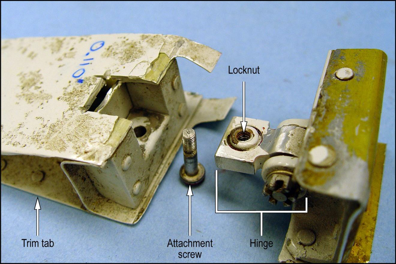 Figure 13: Section of right elevator trim tab (view of underside) showing the inboard hinge, attachment screw, and locknut.